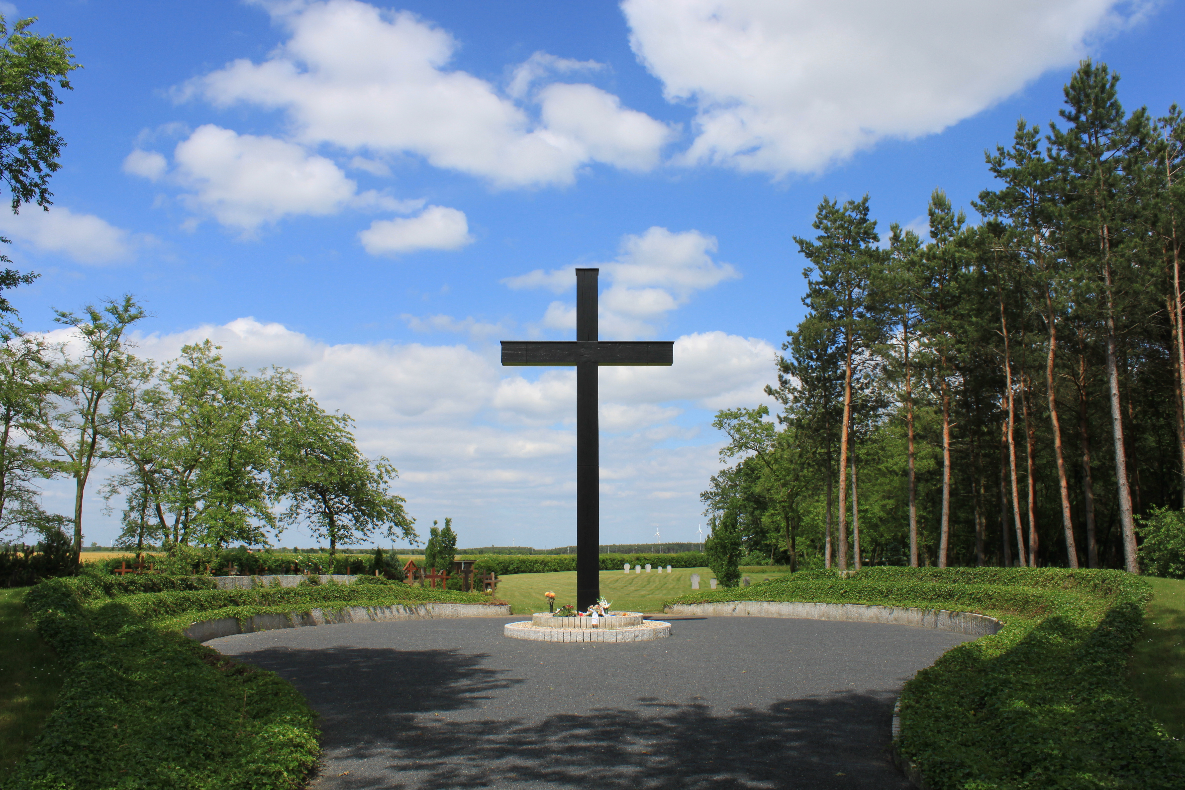 Memorial of the Stalag IVB/Speziallager Nr. 1 Mühlberg/Elbe